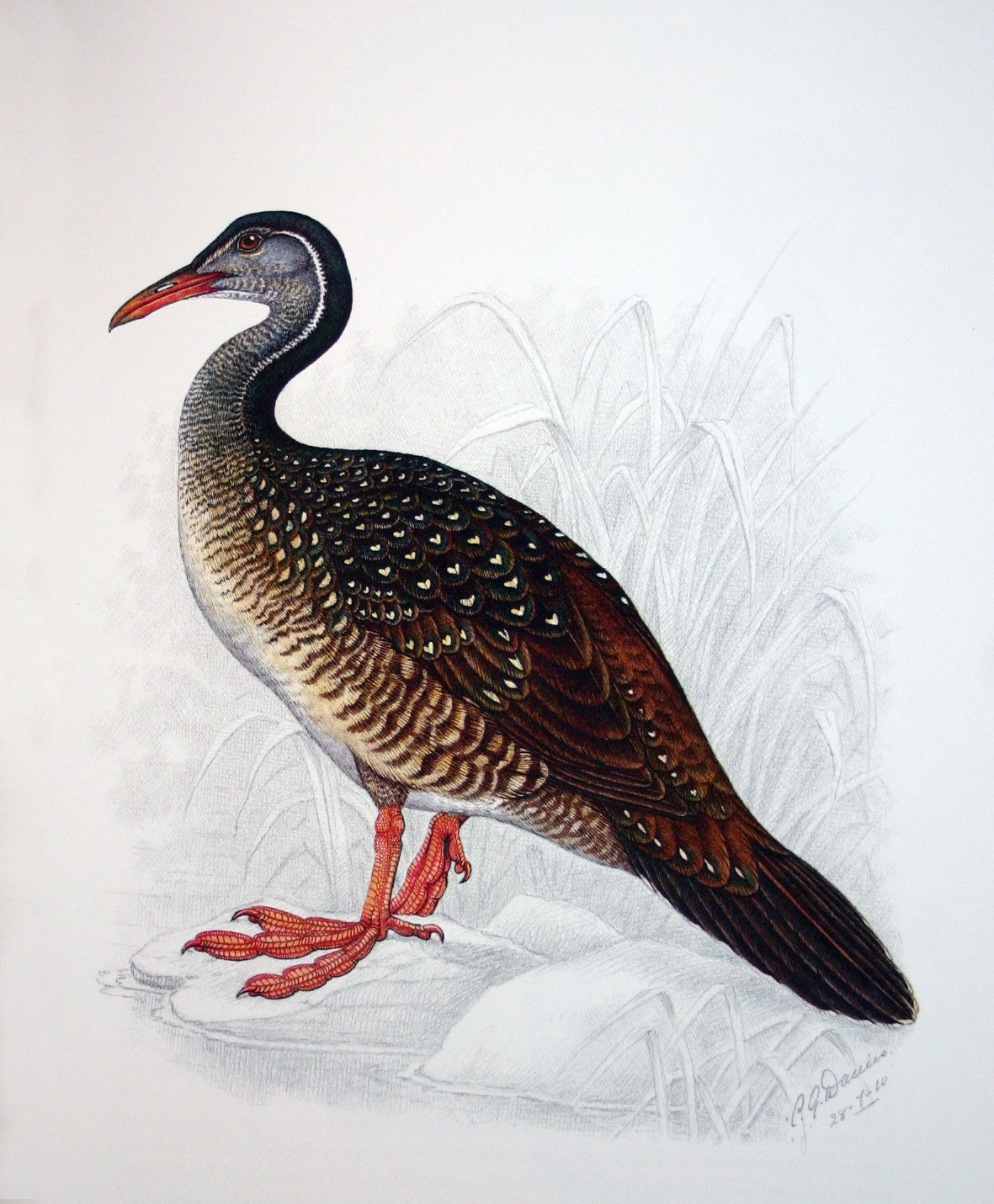 African Finfoot (Podica senegalensis)